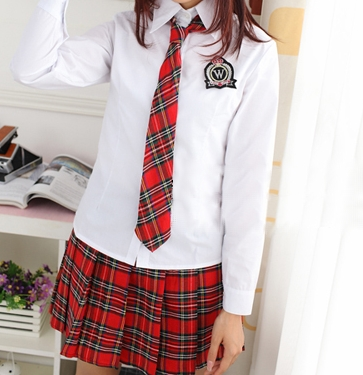 School uniforme